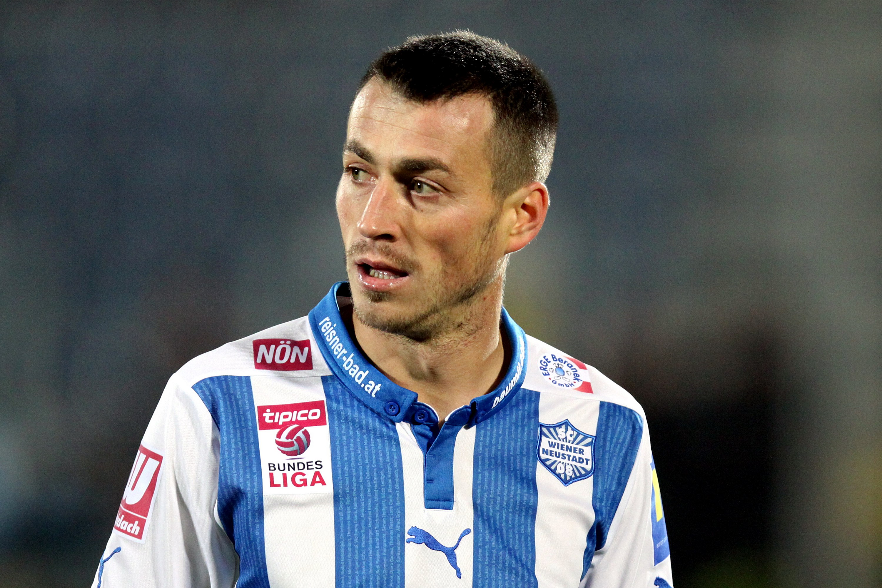 2014–15 Austrian Football Bundesliga: SC Wiener Neustadt vs. Wolfsberger AC (2:0 / 0:0) at 2014-11-22 in the Stadion Wiener Neustadt. – The photo shows en: (SC Wiener Neustadt/Wolfsberger AC). The making of this work was supported by Wikimedia Austria. For other files made with the support of Wikimedia Austria, please see the category Supported by Wikimedia Österreich.